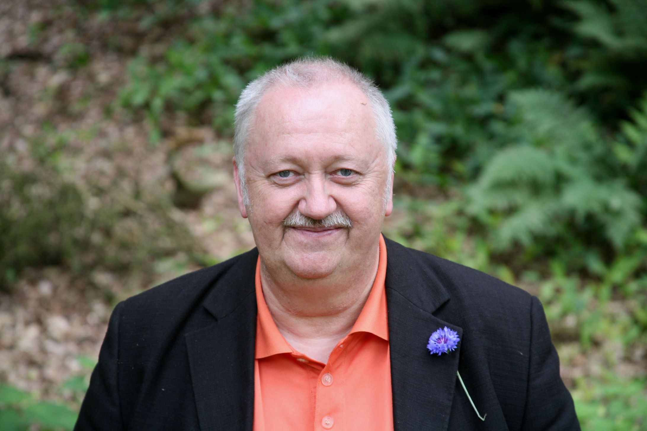 Werner Deutsch